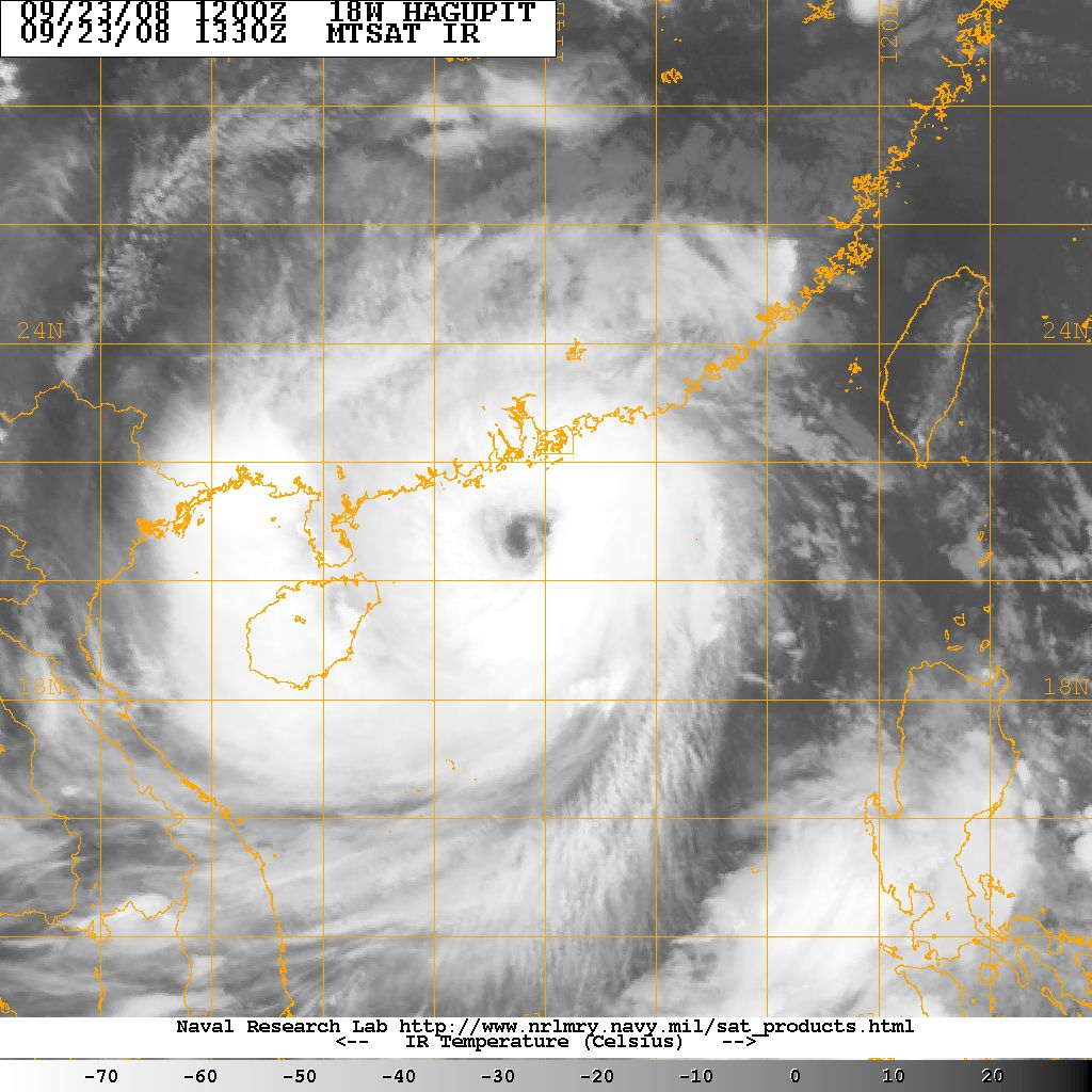 Typhoon Hagupit on September 23 2008